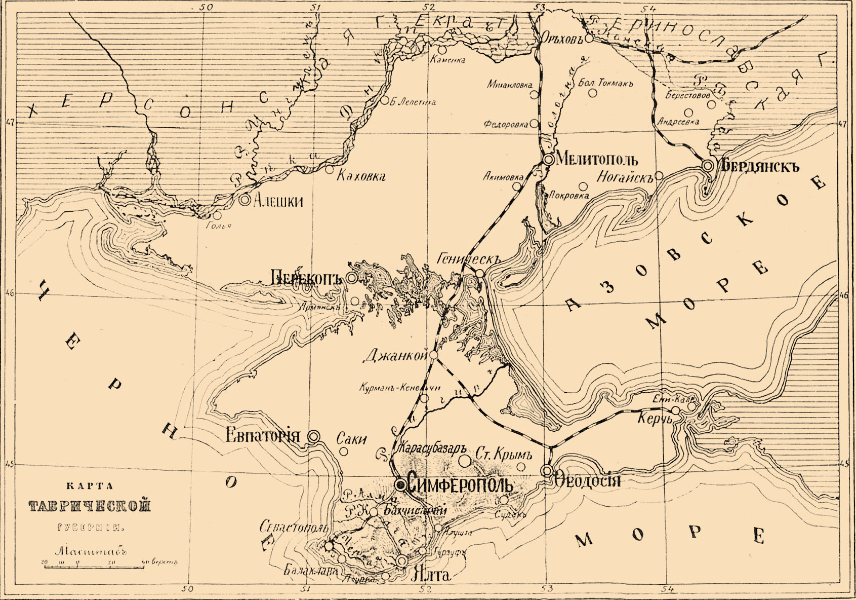 Illustration from Brockhaus and Efron Jewish Encyclopedia (1906—1913)